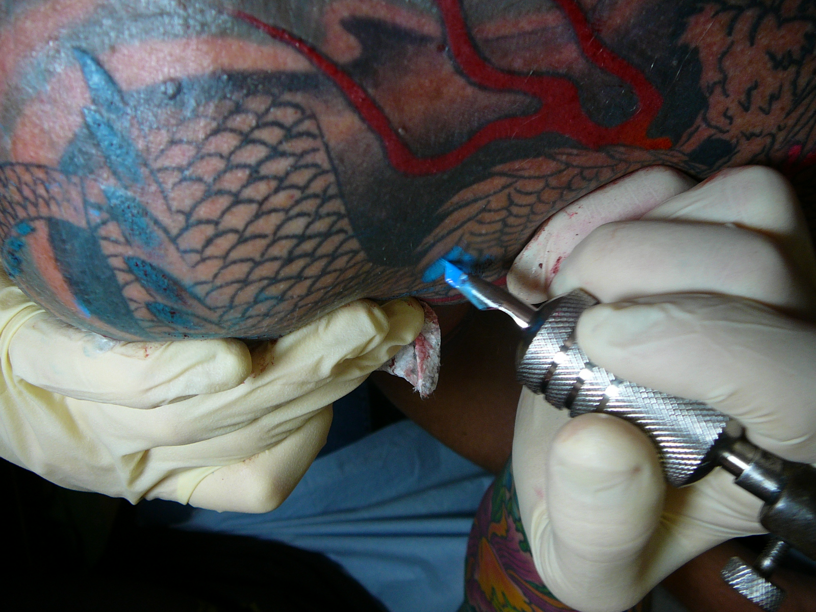 Tattooing in process. Artist: Damien Bart of Bruce Bart Tattooing. Model: Cary Bass. Photographer: Michael Deschenes.